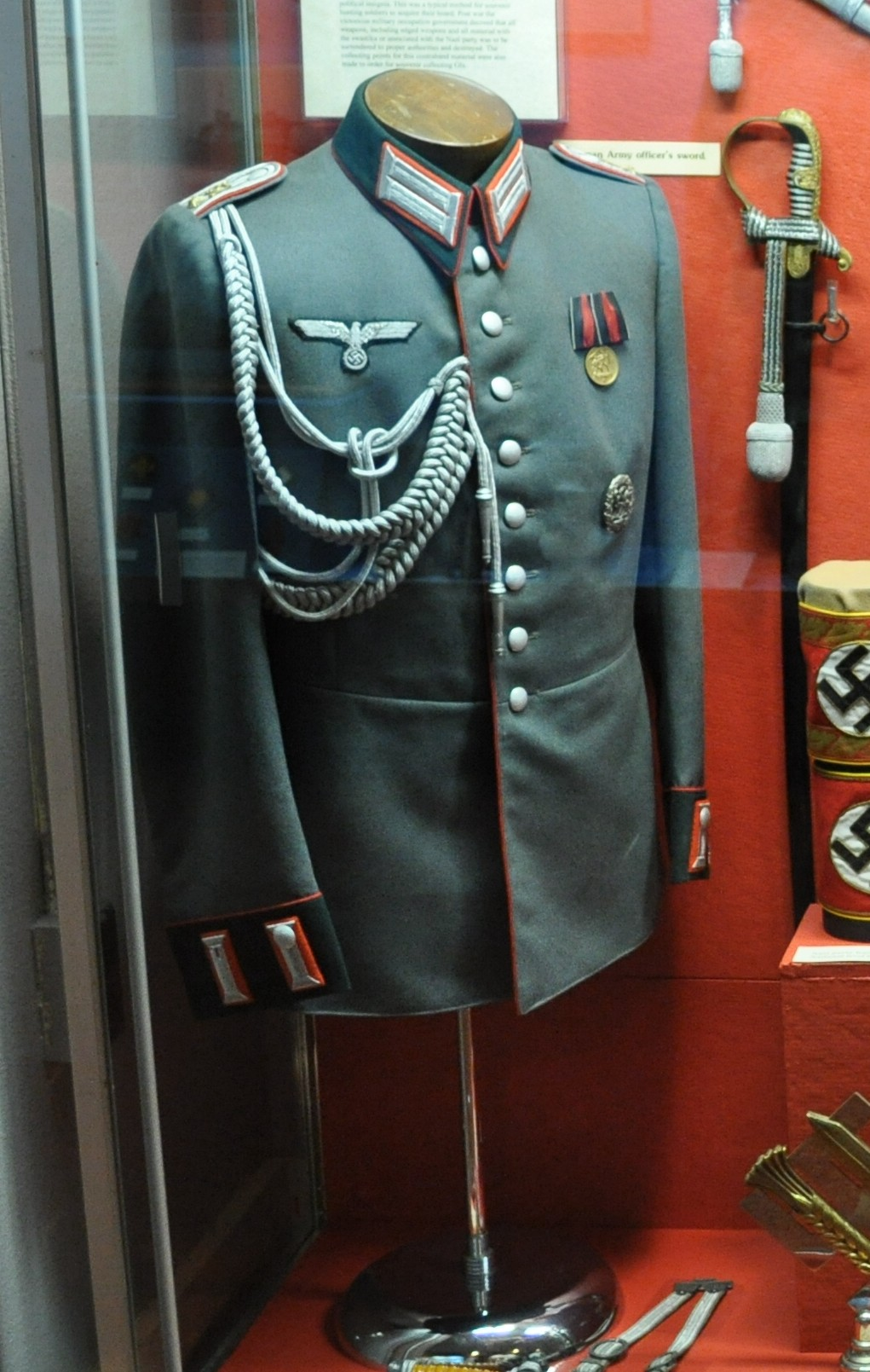 Waffenrock (dress tunic) of a German Wehrmacht´s captain ca. 1939.